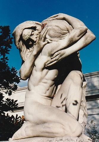 The Prodigal Son, by George Grey Barnard, ca. 1908